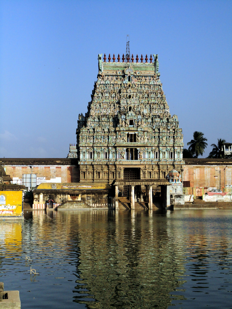 the thiyagaraja temple at tiruvarur